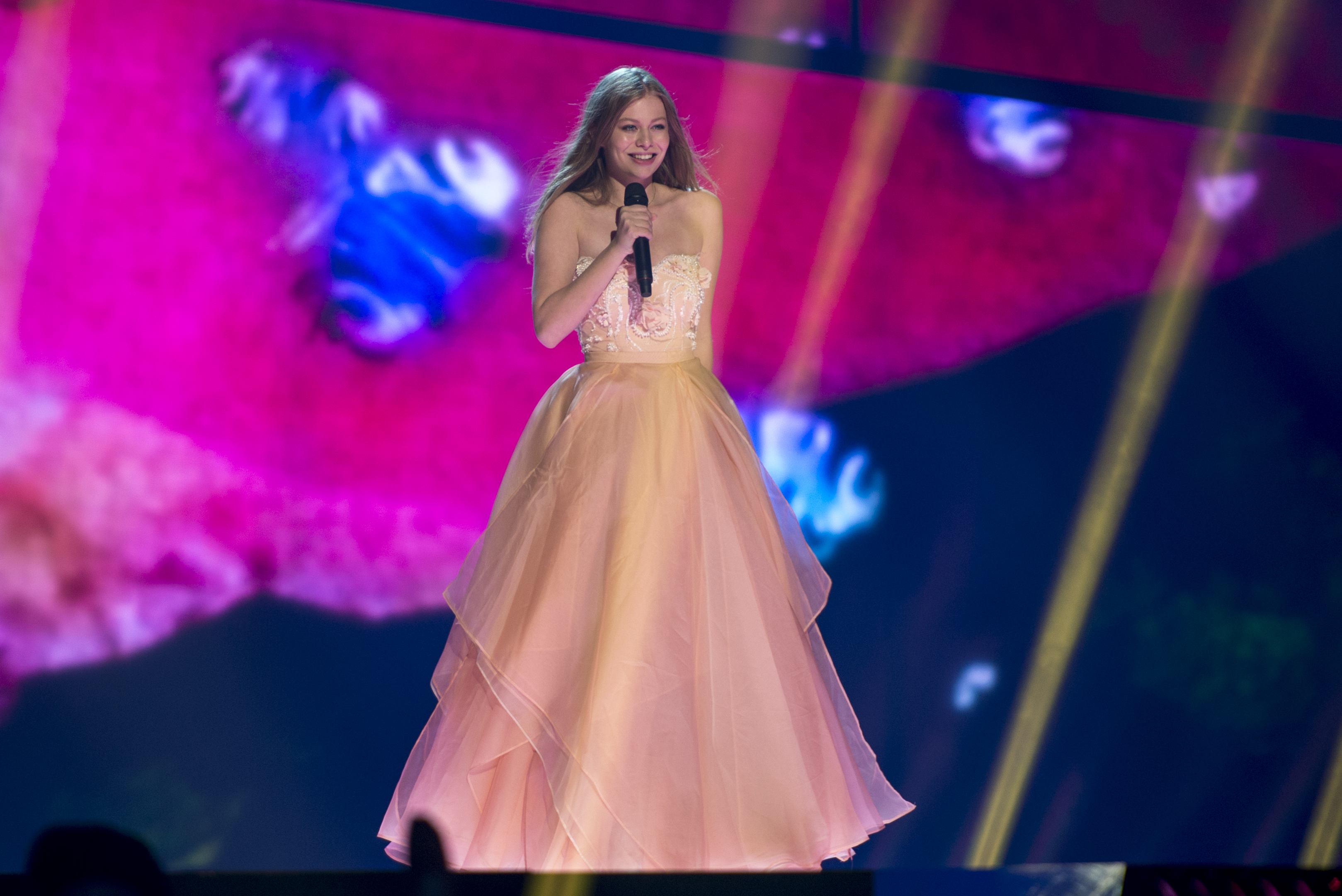 Zoë representing Austria with the song "Loin d'ici" during a rehearsal before the first semi final of the Eurovision Song Contest 2016 in Stockholm. (Help translate this text)